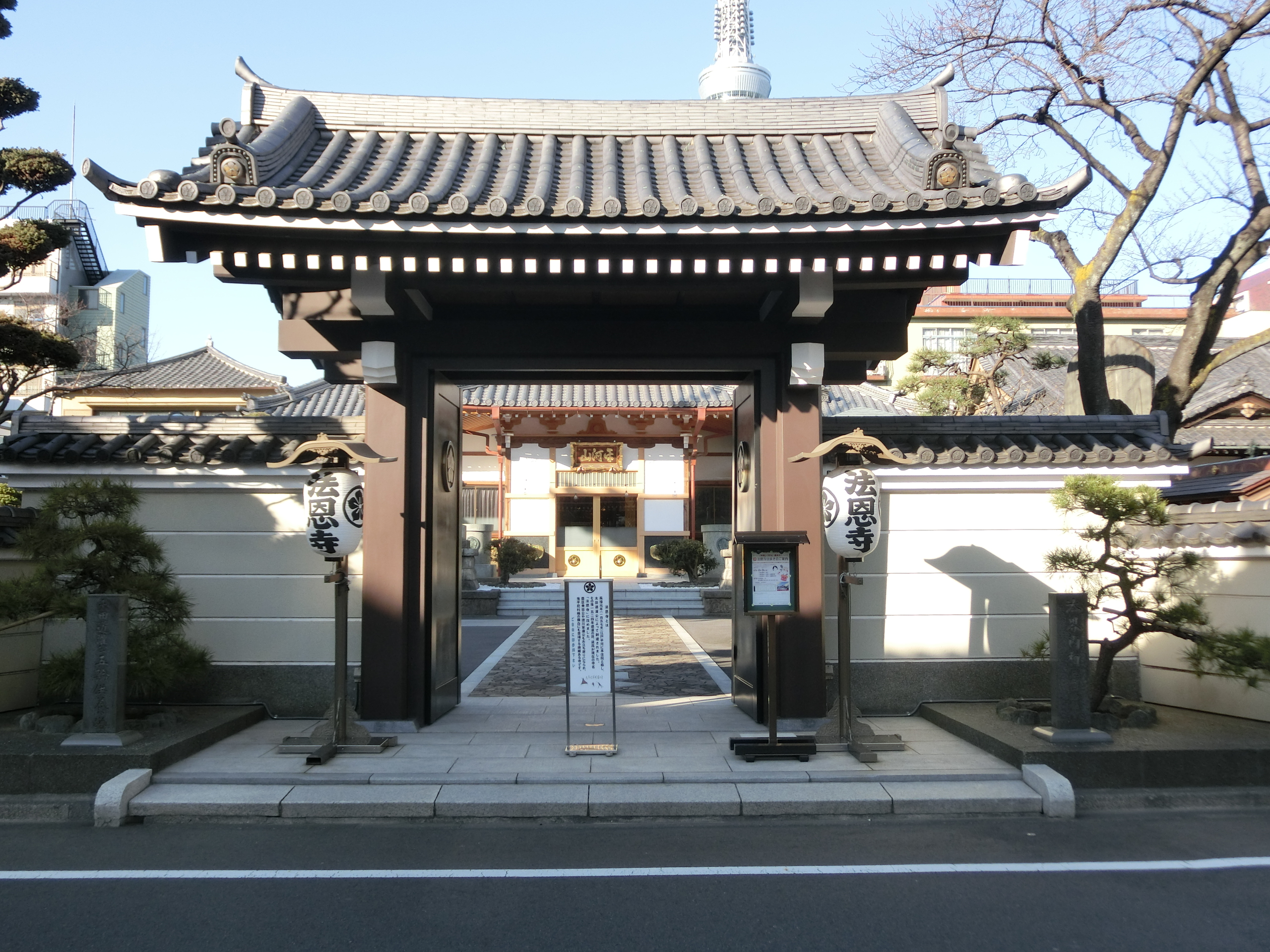 Hoon-ji (Sumida)